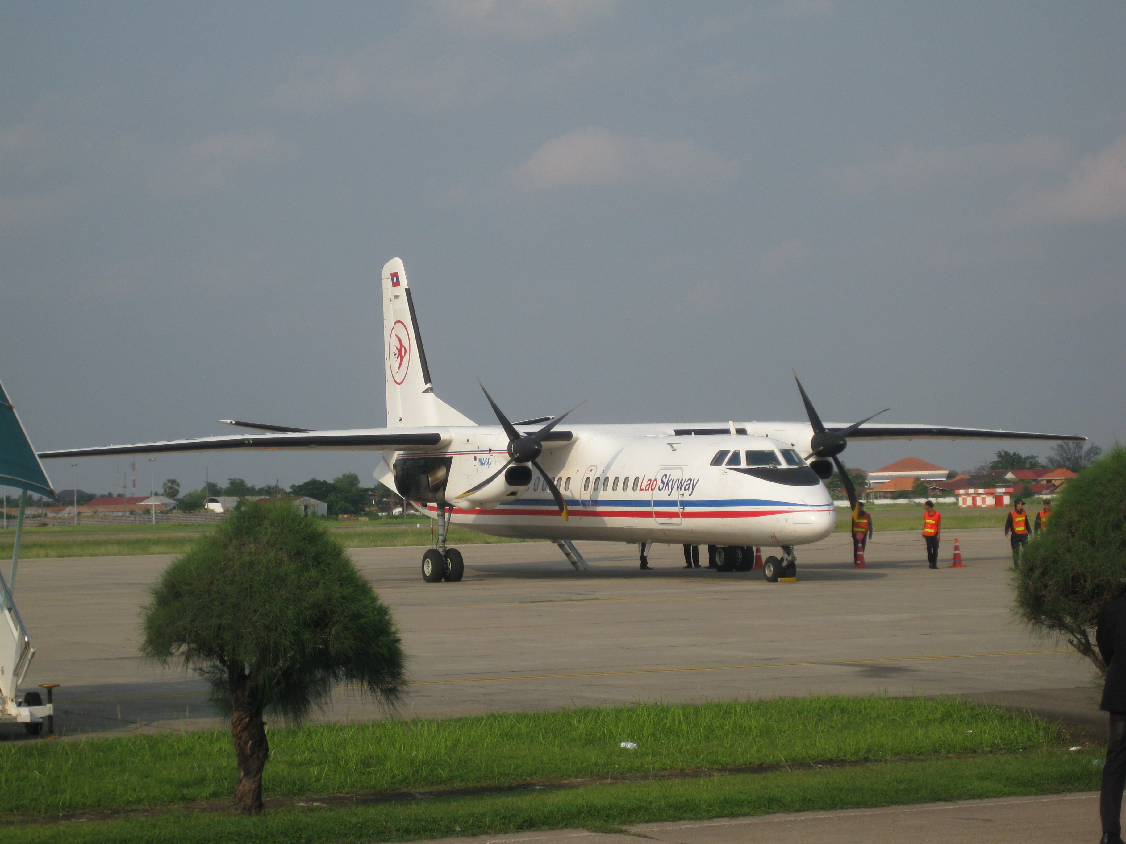 Lao Skyway Xian MA-60 at Vientiane